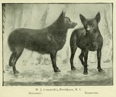 Schipperkes 'Midnight' and 'Darkness' circa 1897.